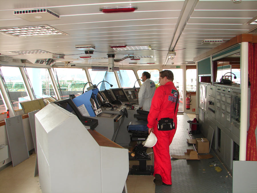 The bridge of the oil/chemical tanker Bro Elizabeth in dry dock in Brest.